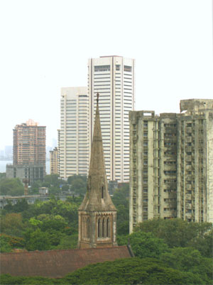 World Trade Towers in Bombay. In the foreground is the Afghan Church spire. View towards north.